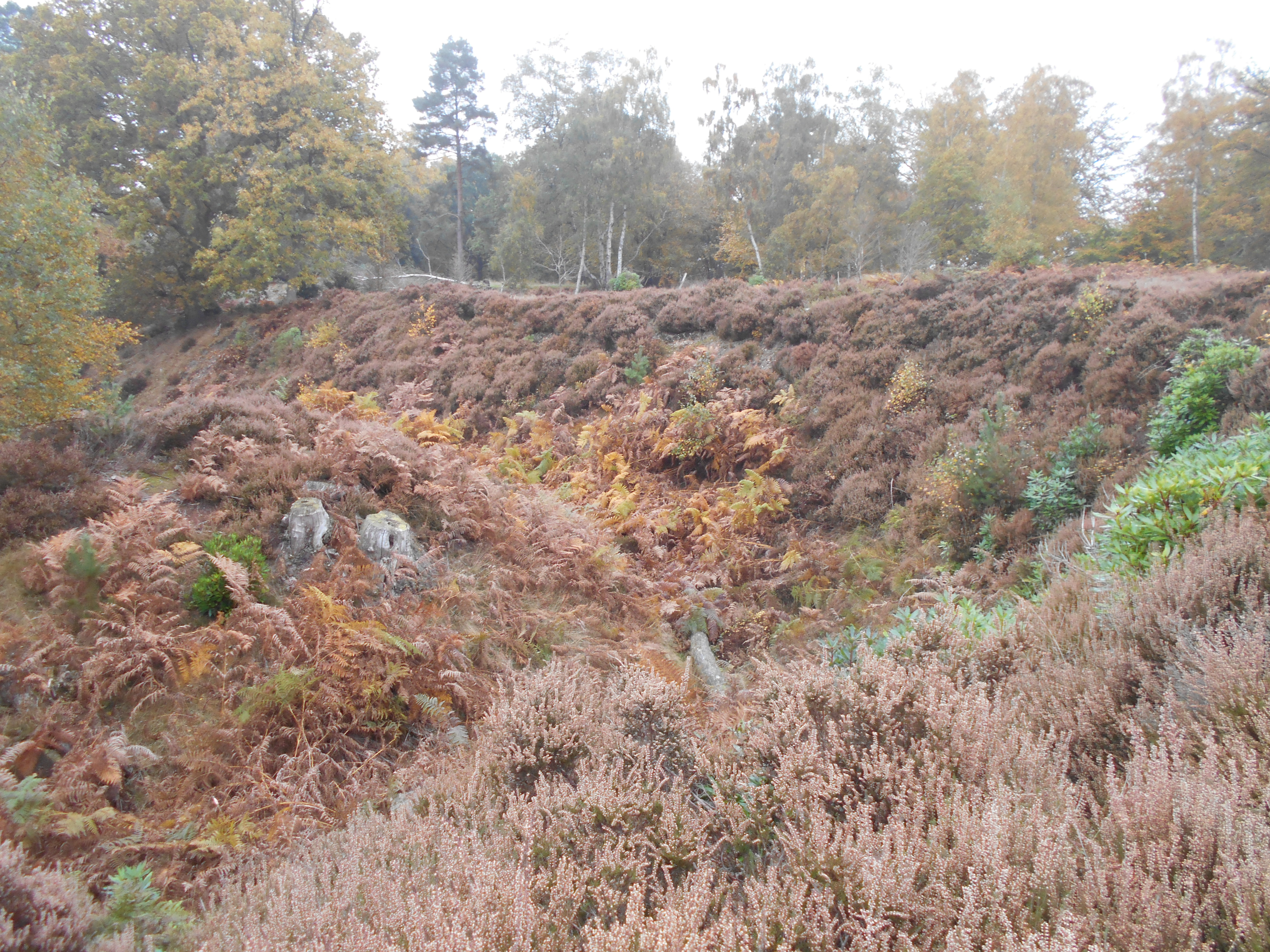 Defences of the western side of Caesar's Camp hillfort, Bracknell Forest. Berkshire, England.